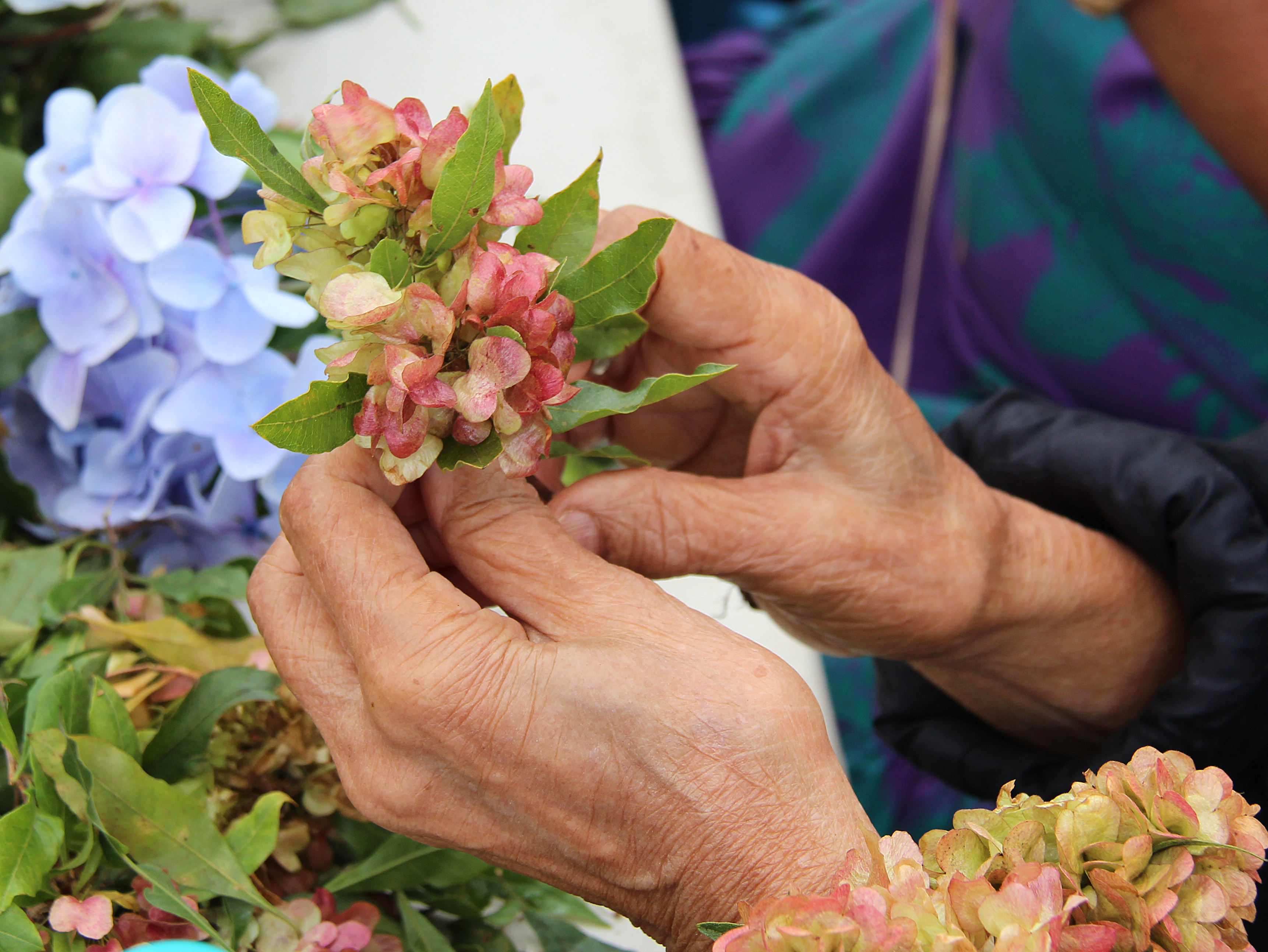 Lei making with the wili (twisting) technique